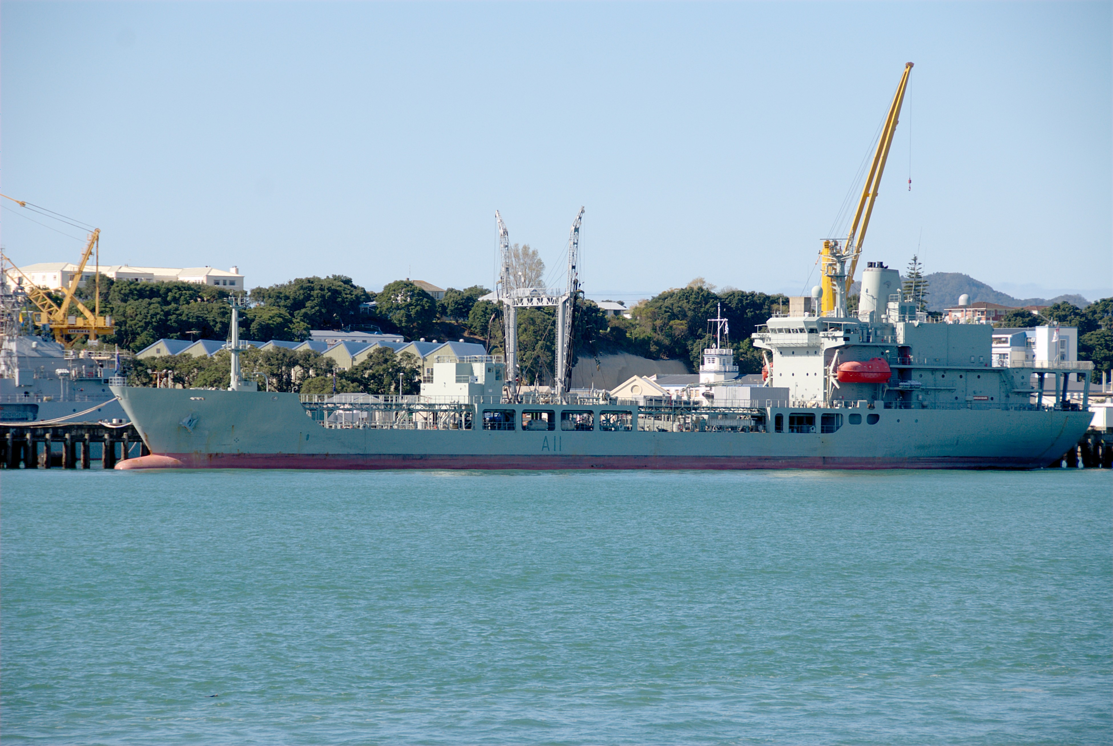 HMNZS Endeavour (A11), a supply ship of the navy, at Devonport Naval Base.